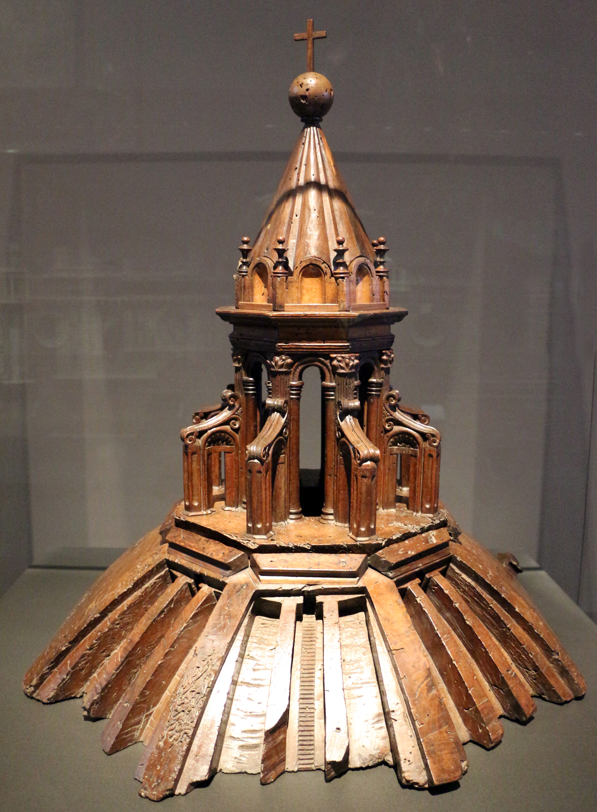 Museo dell'Opera del Duomo (Florence)